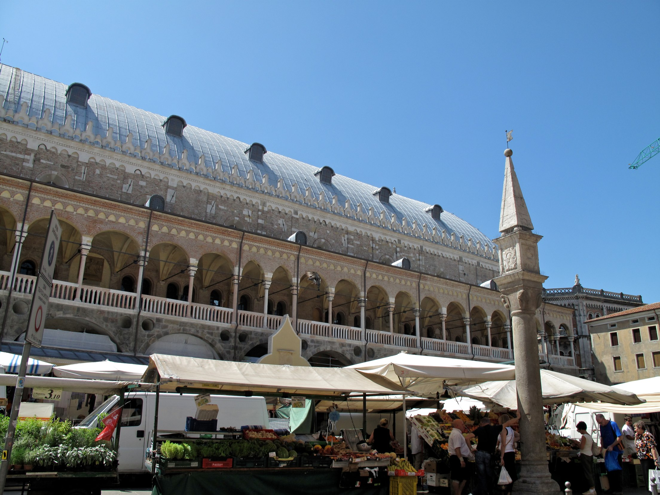 Market in Piazza della Frutta, Padua. In background, Palazzo della Ragione.